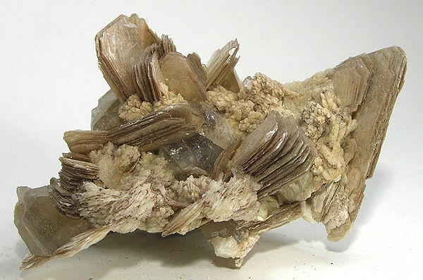 Muscovite Locality: Little Three Mine (Little 3), Ramona District, San Diego County, California, USA (Locality at ) Size: 7.2 x 4.9 x 3.4 cm. Muscovite is usually seen as a "boring" accessory mineral on specimens, but here is a beauty from the Little Three Mine (from which specimens are coveted by many collectors) featuring shimmering, silvery triangular books of crystals, held together by quartz and albite. This is from Gary Hansen dealer stock.